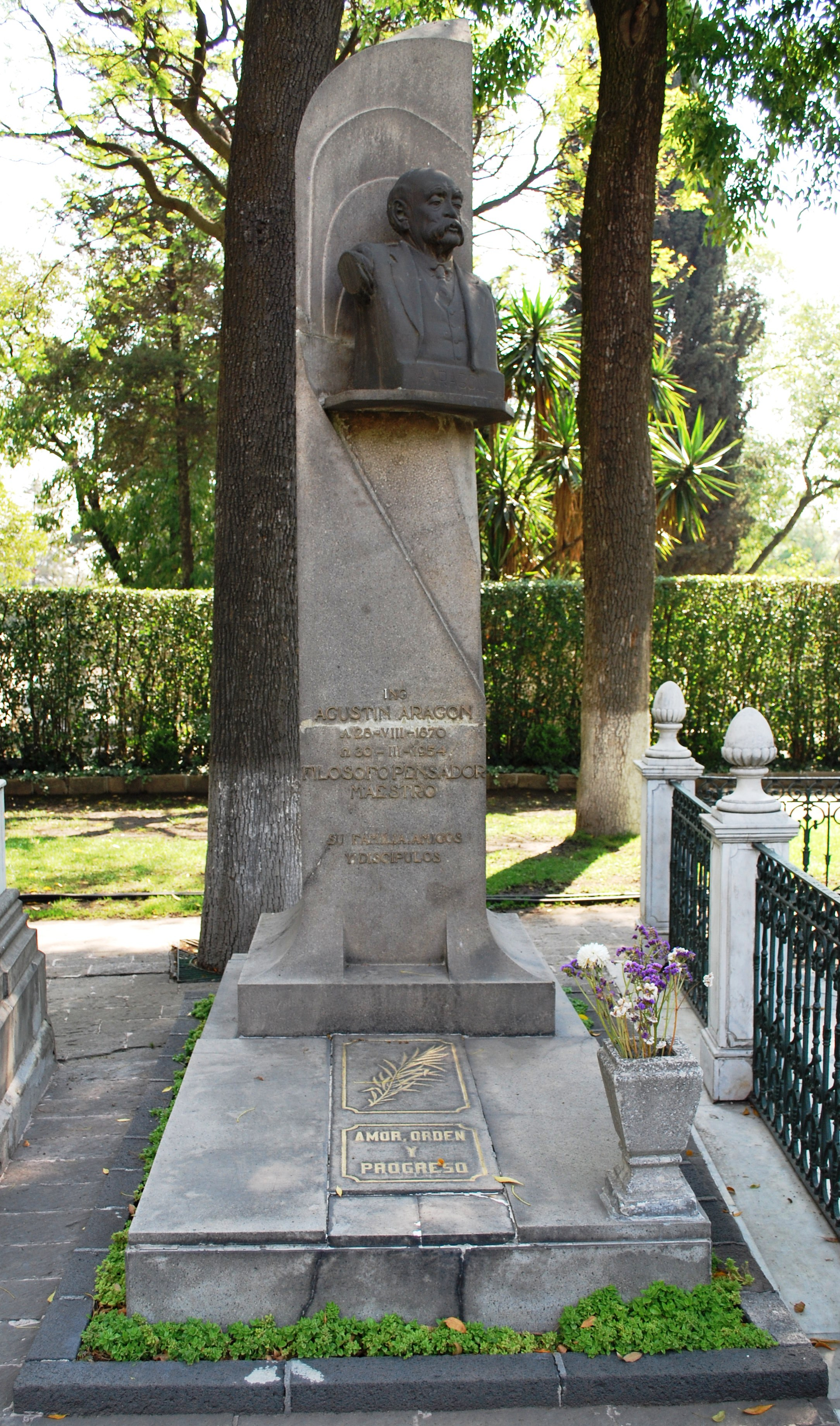 Tomb of Agustin Aragon in the Panteon Civil de Dolores cemetery in Mexico City